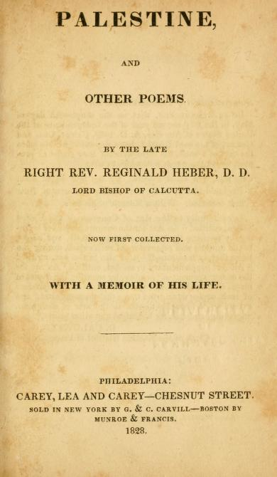 Palestine and other poems by Reginald Heber.